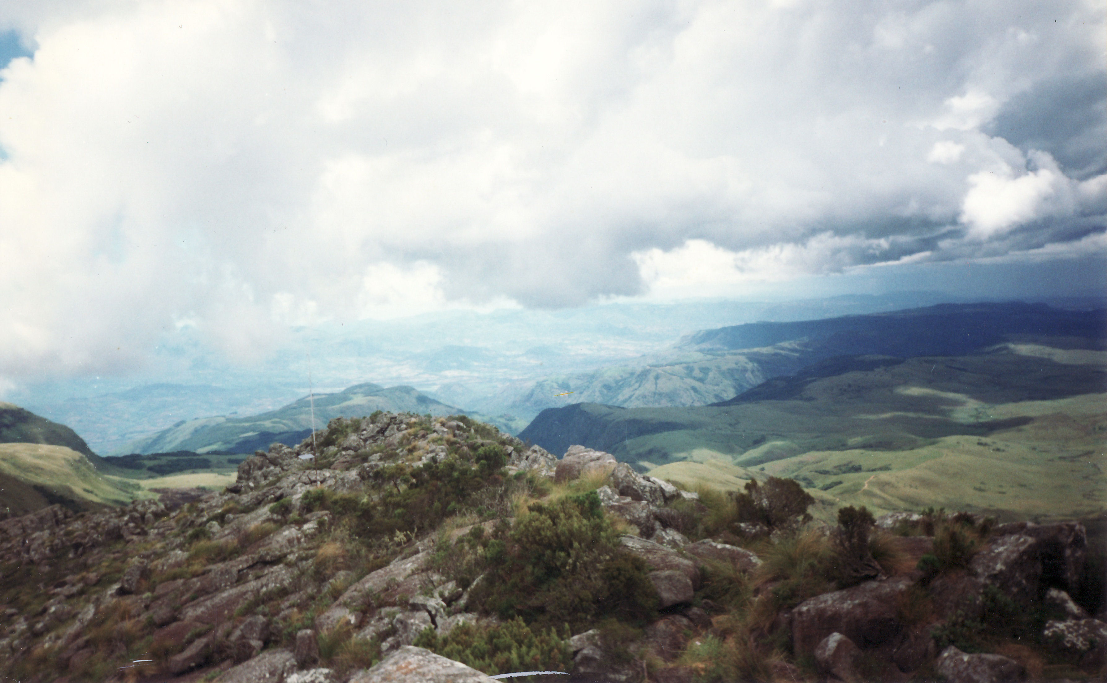 Mt. Nyangani is the highest peak in Zimbabwe at 2,592m. It is located in in Manicaland.